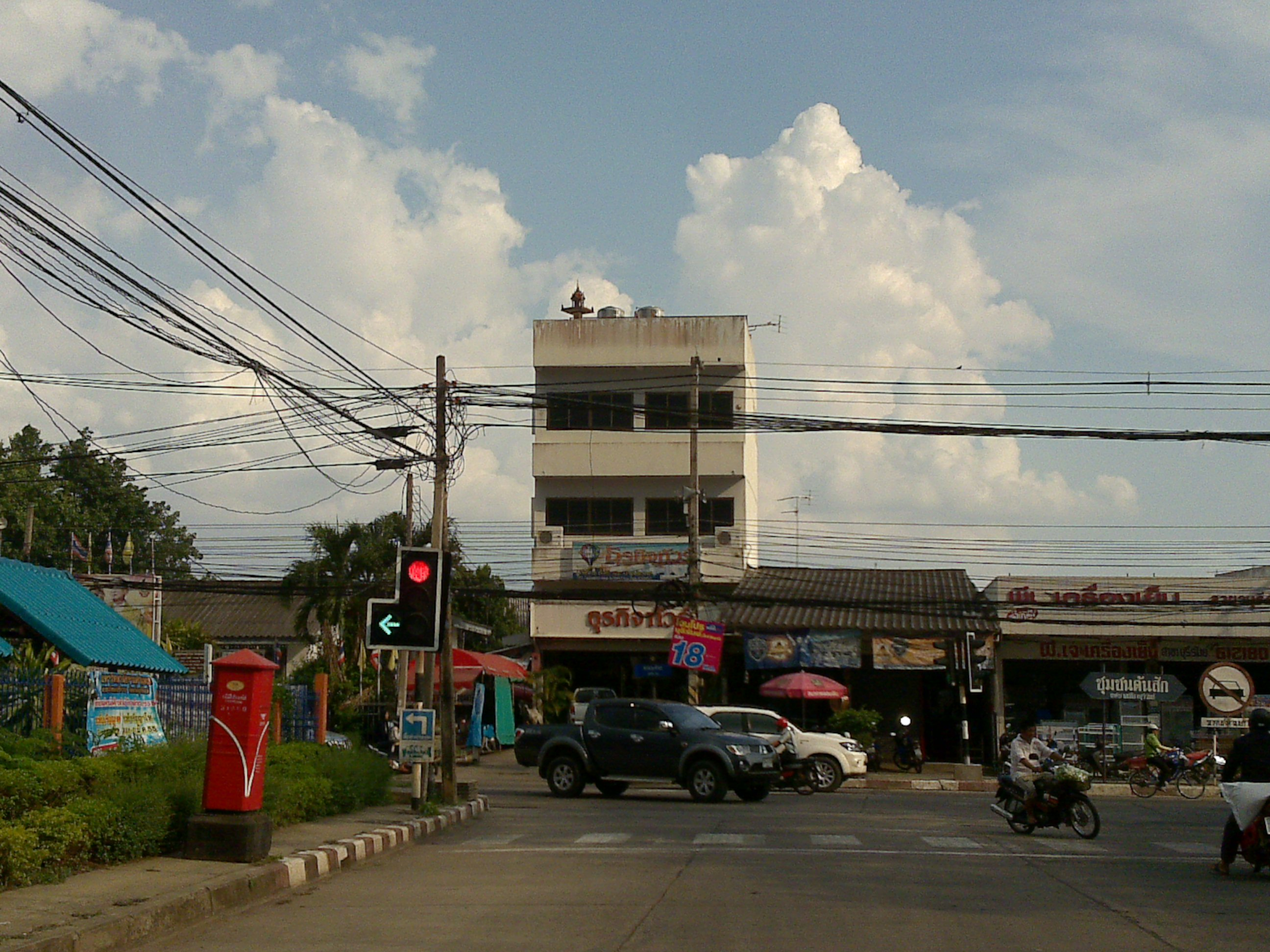 Plad Mueang Street.